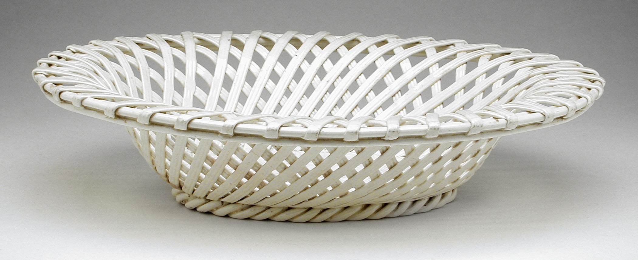 England, circa 1785 Furnishings; Accessories Creamware (earthenware) 2 1/2 x 8 x 10 1/4 in. (6.35 x 20.32 x 26.04 cm) Gift of Dr. and Mrs. Denny B. Lotwin (M.81.257.5) Decorative Arts and Design